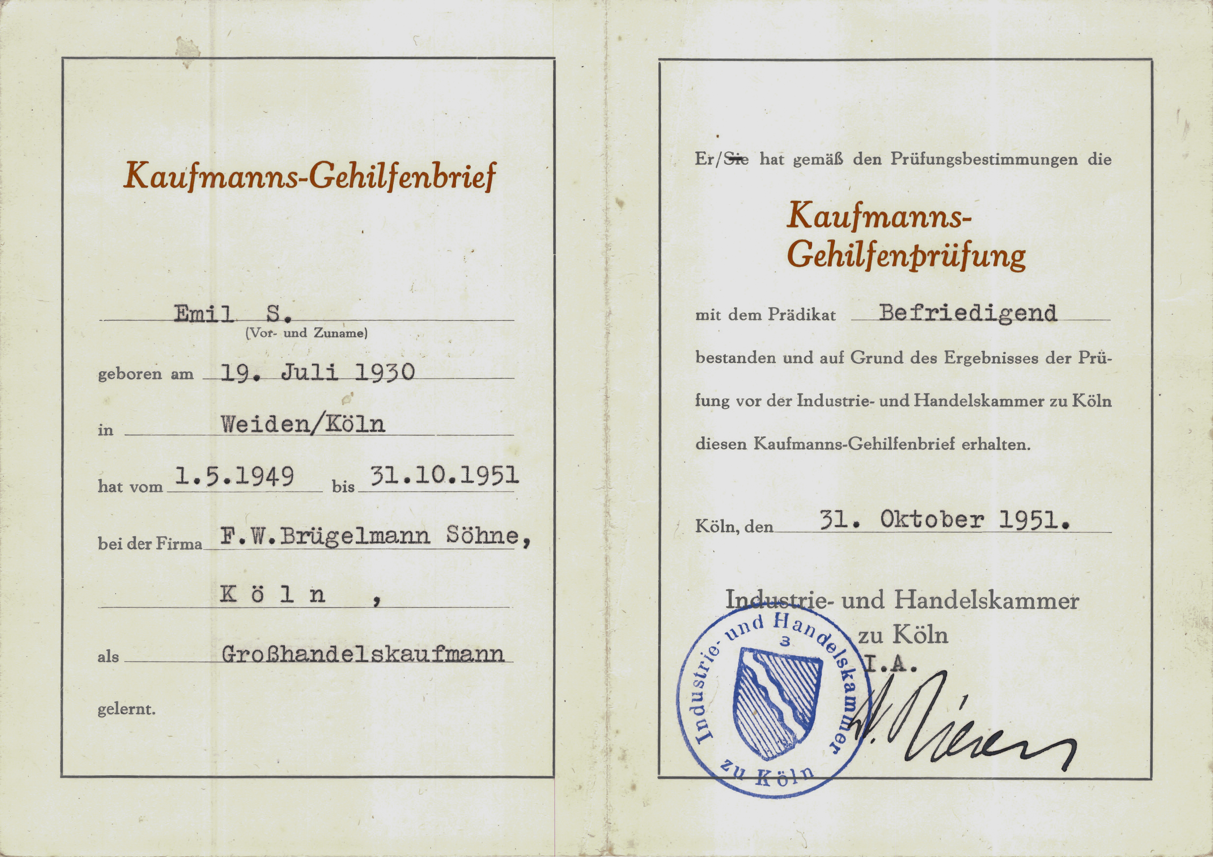 Cologne, Germany: Journeyman Certificate of IHK Köln in the year 1951.